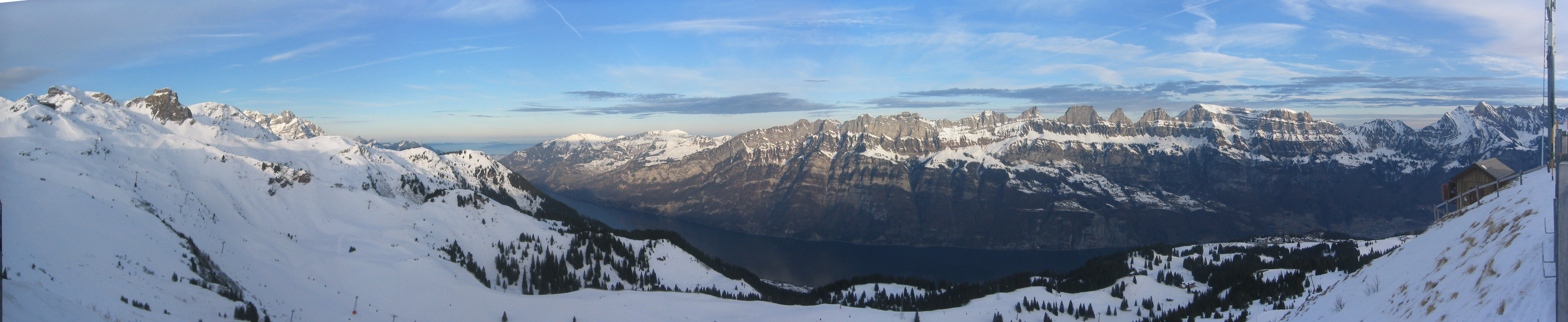 A panorama